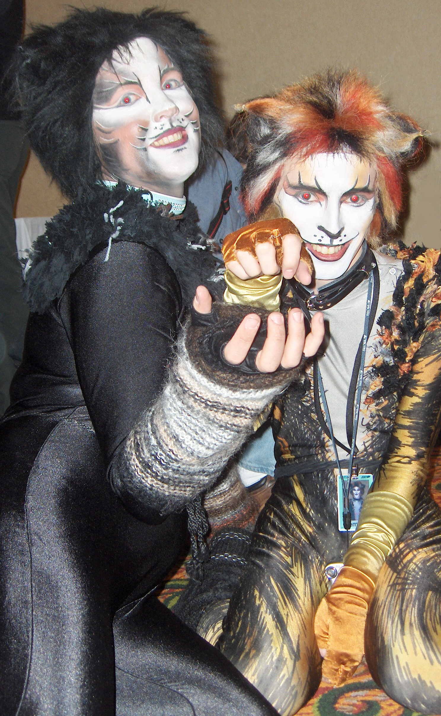 Two Cats costumers posing while waiting for the masquerade at Further Confusion 2007.